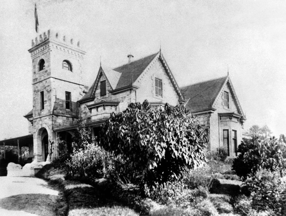 Toorak House, Brisbane, ca. 1890. Toorak House was built for Sir James Dickson on 20 acres overlooking the Brisbane River at Hamilton in 1864. It was named after another house in Melbourne which had been built by cousins. Dickson was Queensland Premier for several months in 1898, and in 1900 he travelled to London in a delegation led by Alfred Deakin to negotiate terms with the British Government, on the Commonwealth of Australia Constitution Bill. Toorak served at his residence for almost forty years and was the venue where he entertained distinguished guests. It also was a family home where he lived with his (first) wife, Annie and their six sons and seven daughters.